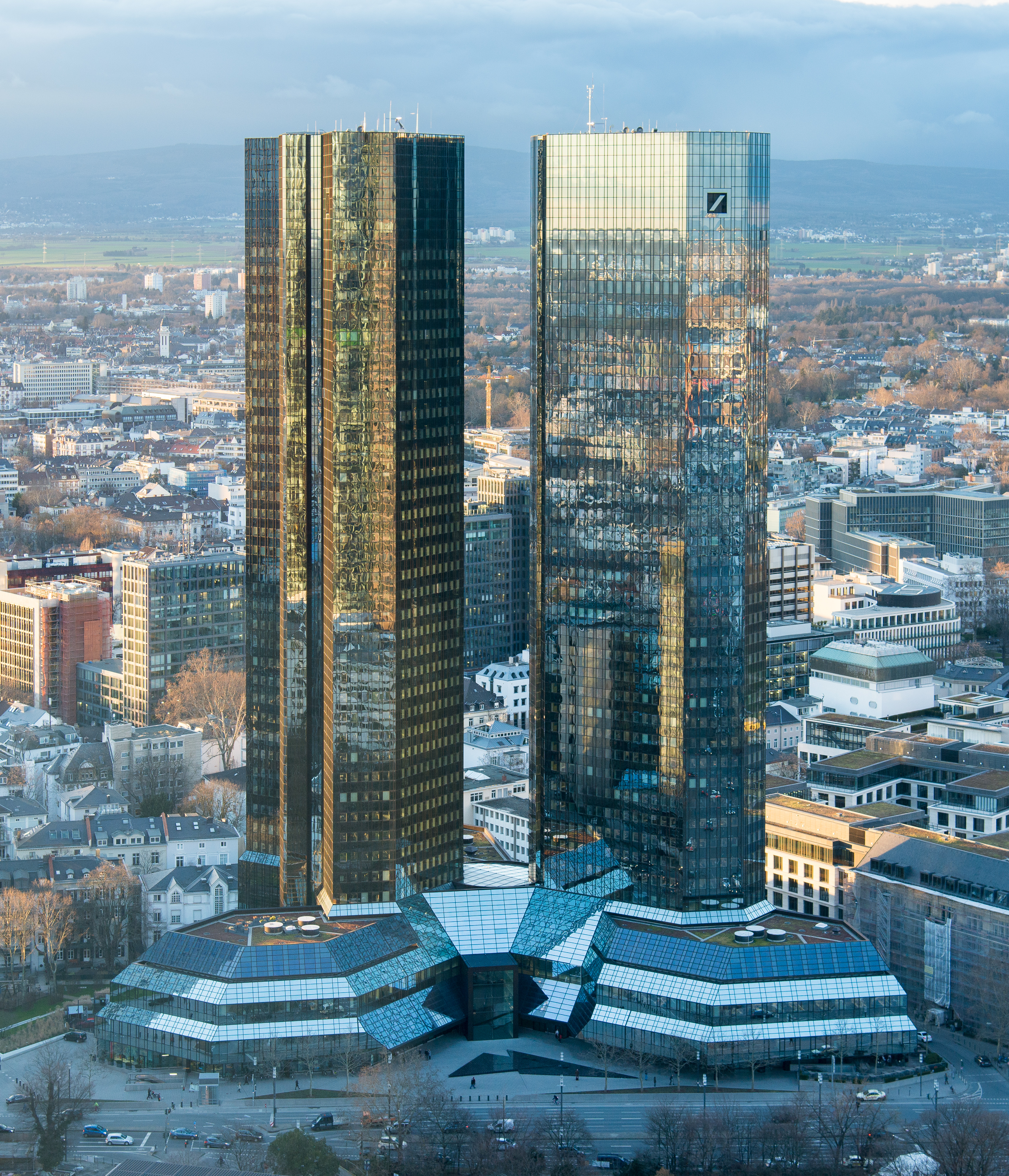 Frankfurt am Main: Deutsche Bank Twin Towers as seen from South-East (February 2014).